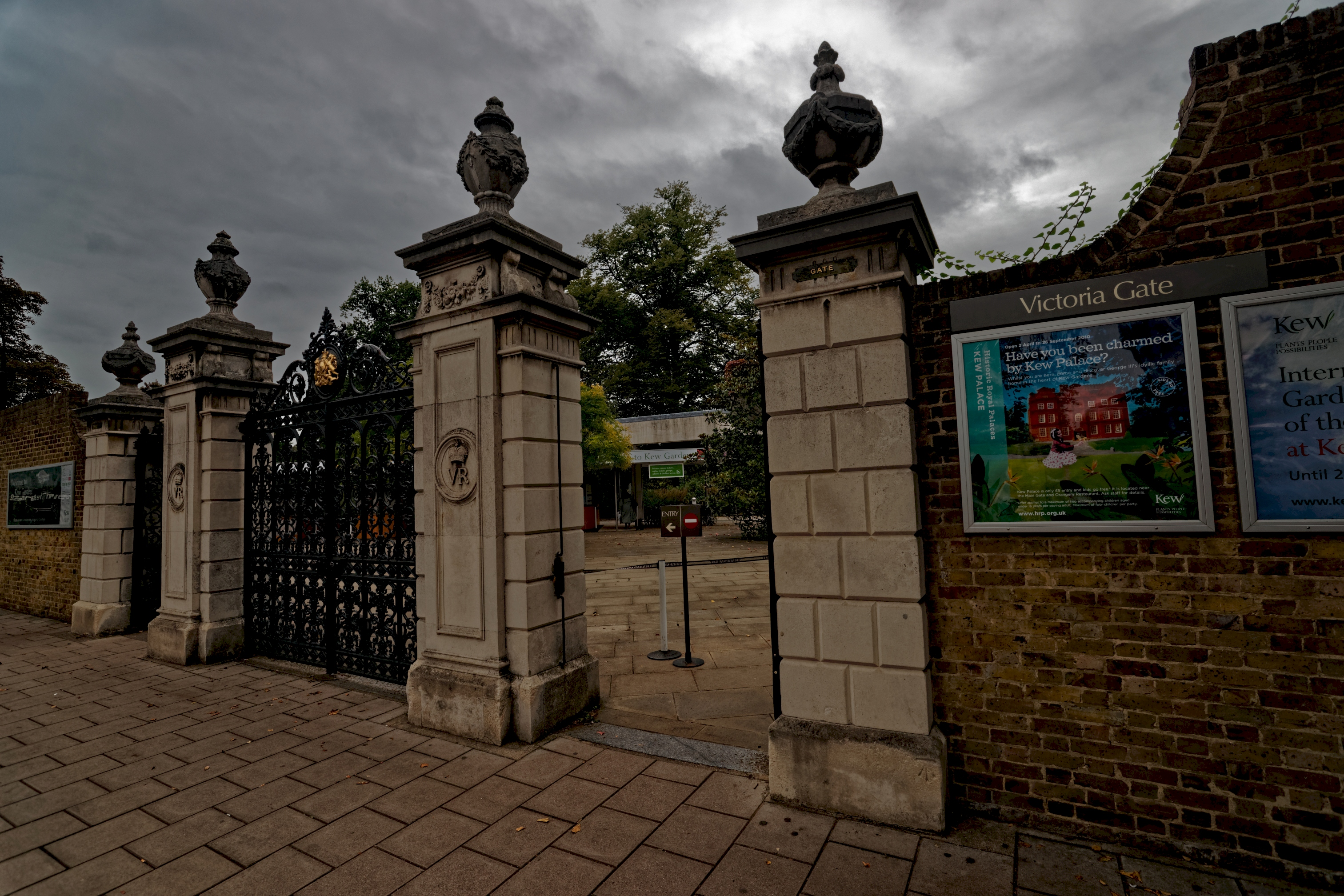 London - Kew Road - View SW on Victoria Gate 1868 William Eden Nesfield